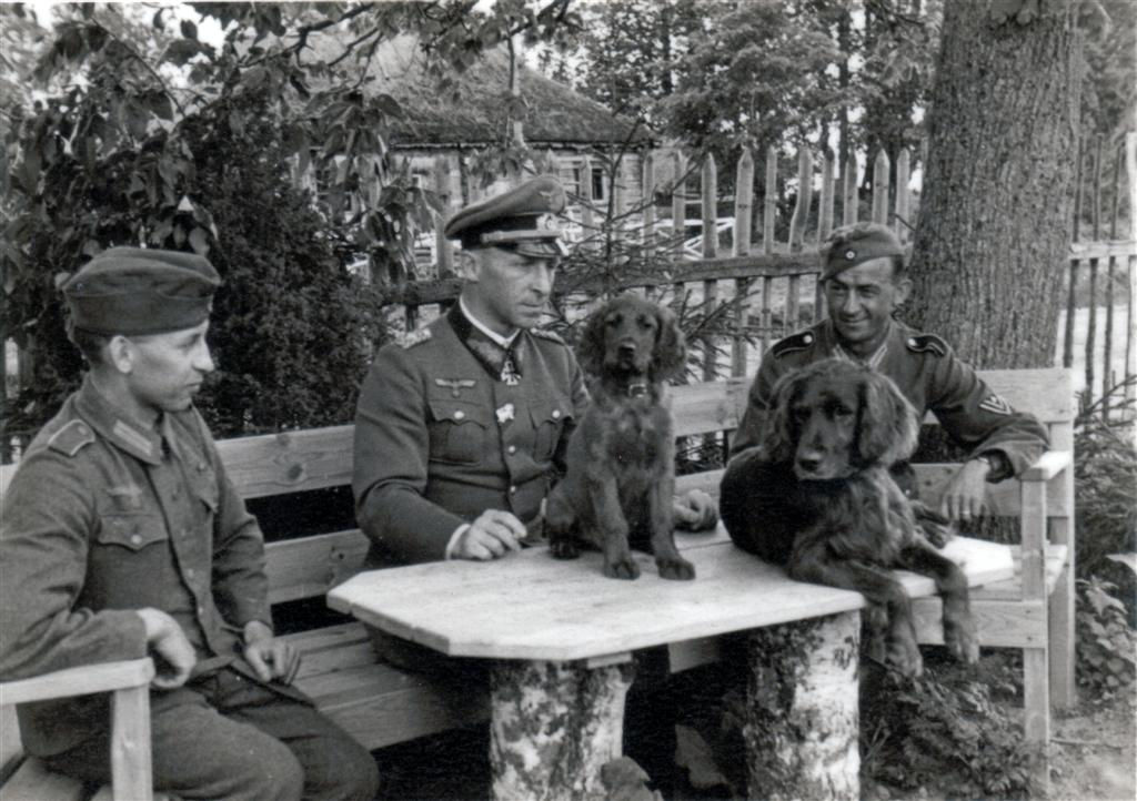 Lieutenant General Hahm (CDR 260th Infantry Division) at Uspech, Russia in May 1943